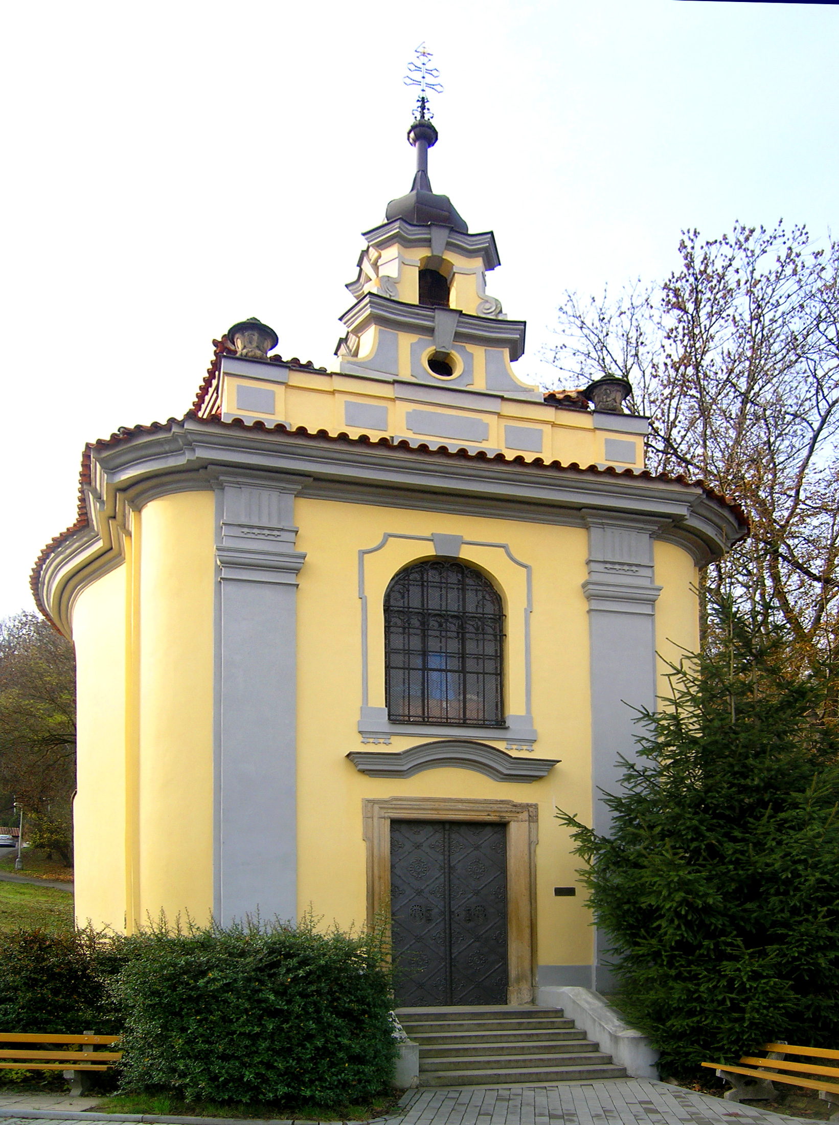 Holy Trinity Chapel in Sedlec, Prague